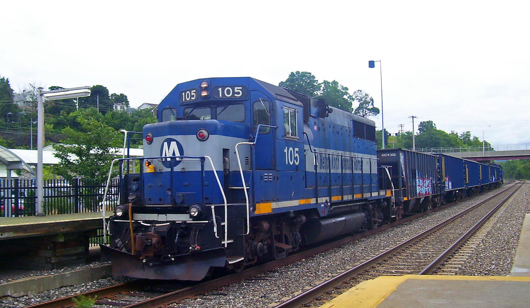 Metro-North Railroad maintenance train going through the Beacon, NY, station